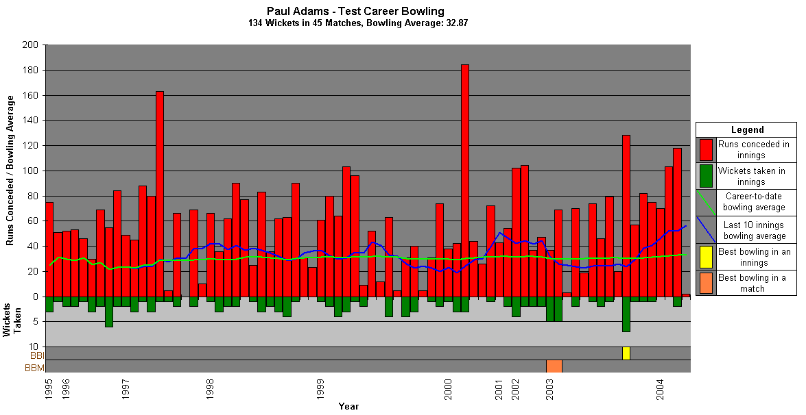 A graph that shows Paul Adams' test career bowling statistics and how they have varied over time. It was created by Masai 162. This image was created using Microsoft Excel and MS Paint. Source Data obtained from This graph is up to date as of 29th August 2007.